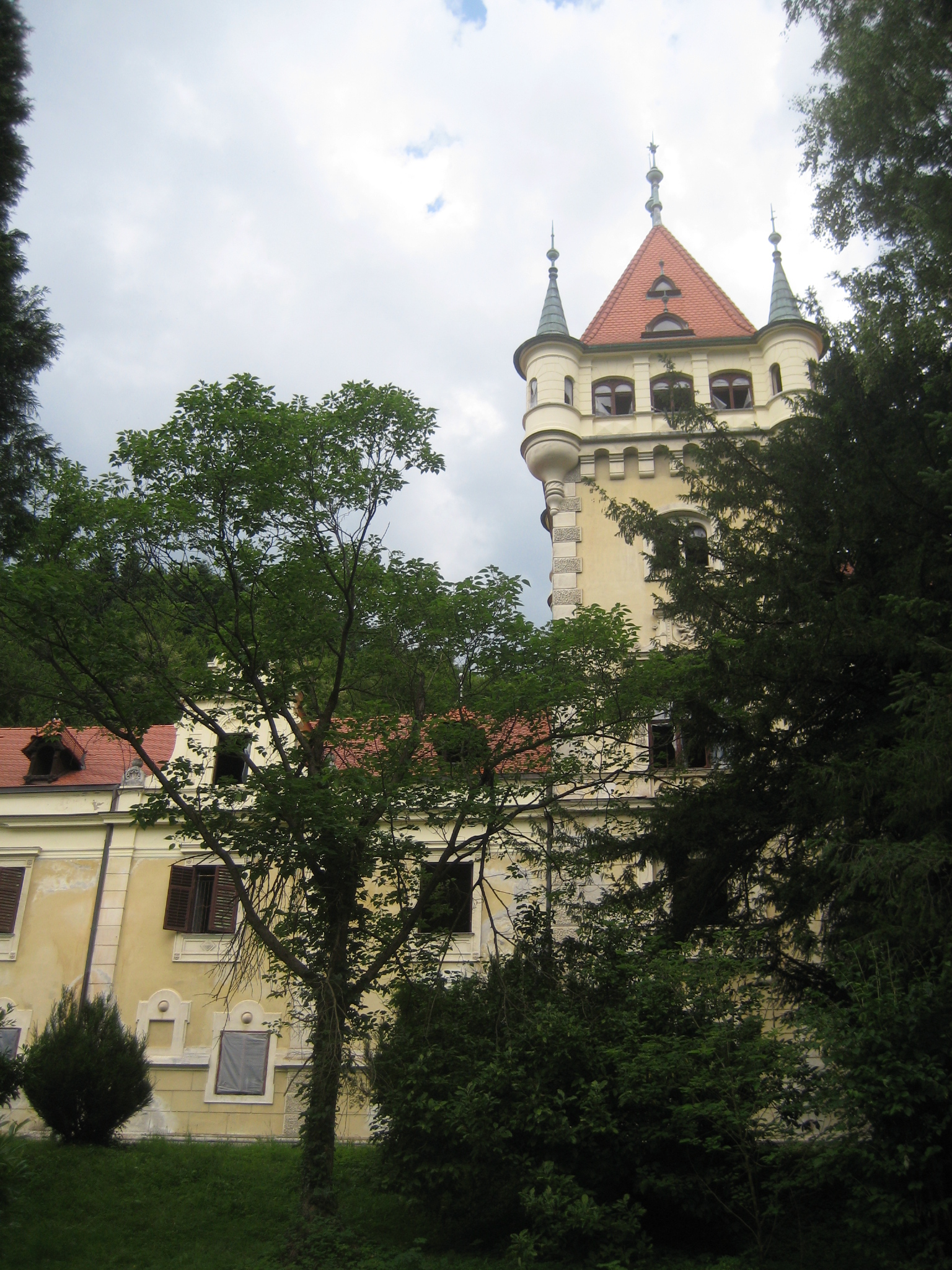 Viltuš castle, Slovenia